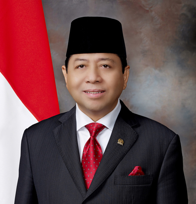 Official image of Setya Novanto, chairman of Golkar Party and speaker of the Indonesian House of Representatives in 2017